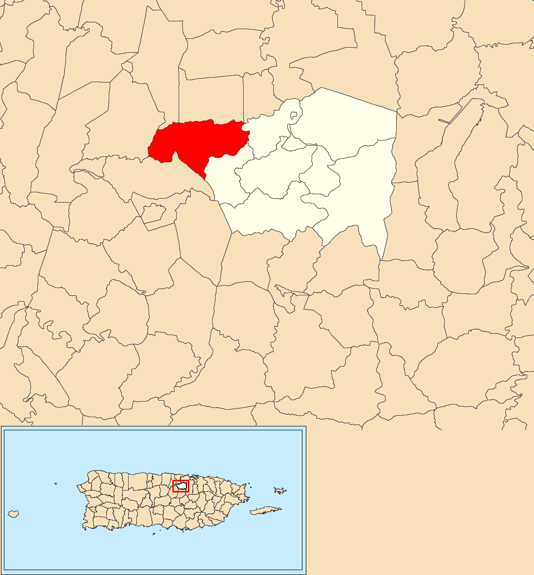 Río Lajas, Toa Alta, Puerto Rico locator map